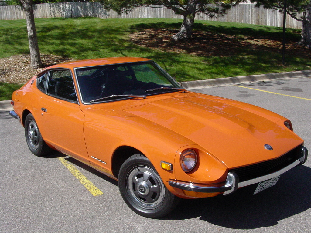 This is the right/front view of my son's and my restored '71 240Z.